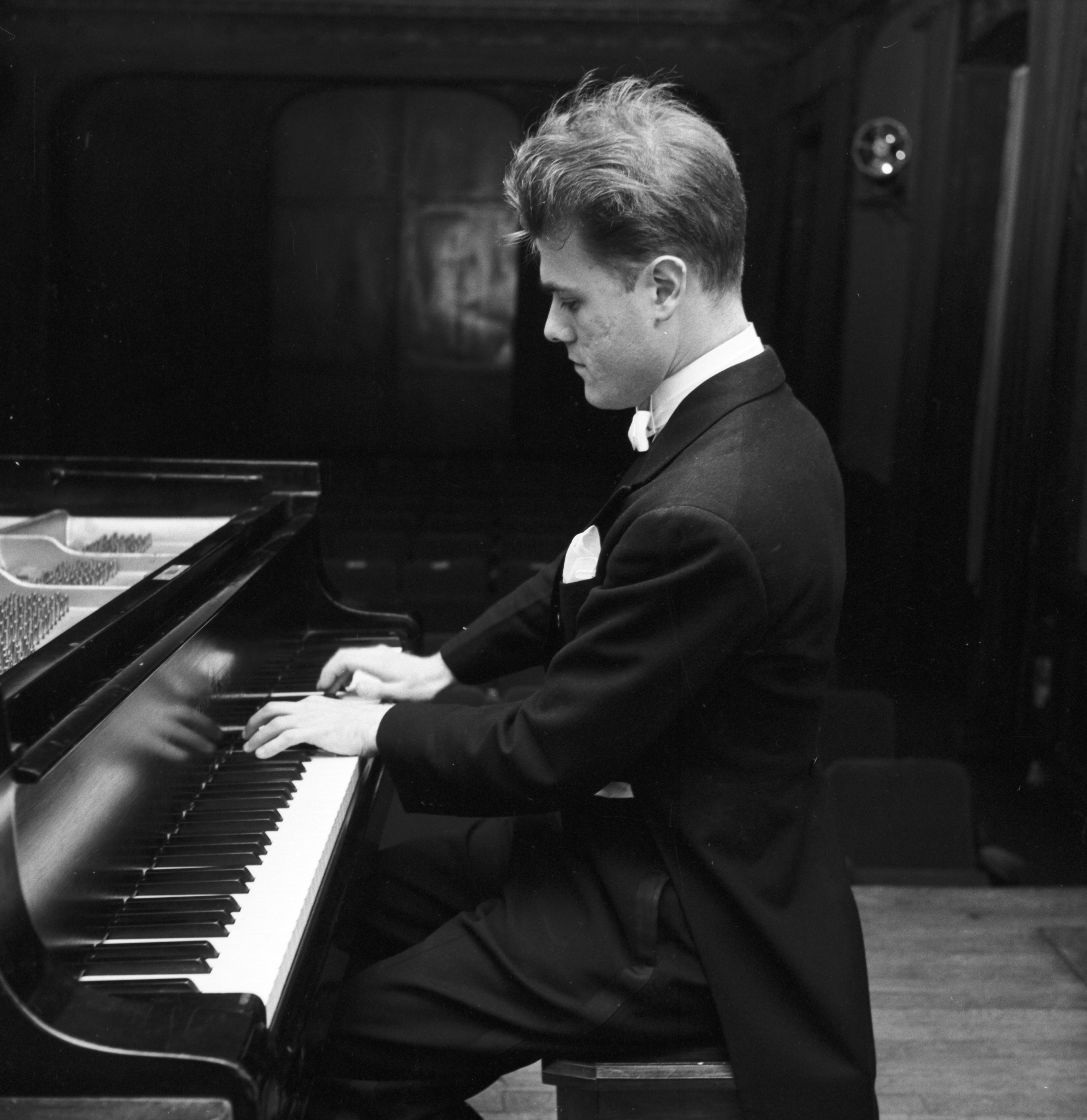 Charles Rosen, US Pianist Concert, Series: Photographs of Marshall Plan Programs, Exhibits, and Personnel, 1948 - 1967 Paris (France), Marshall Plan